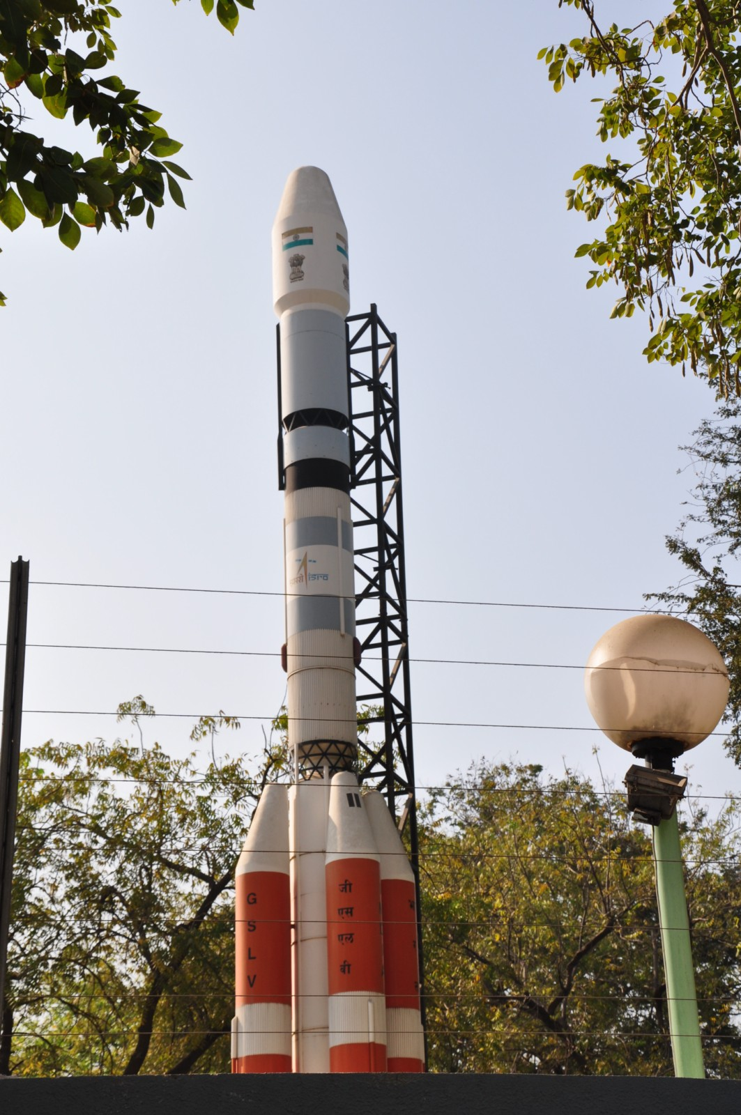 REPLICA OF GSLV ROCKET IN ISRO